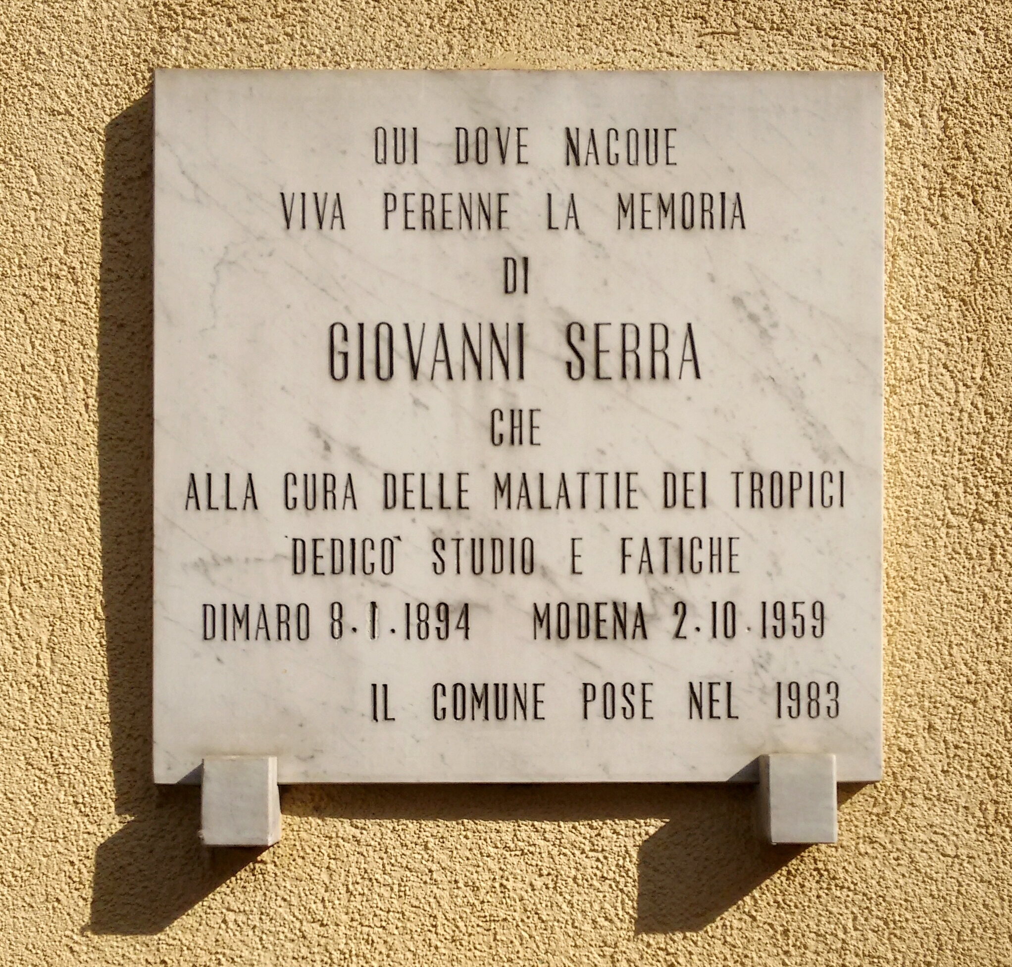 Plaques to Giovanni Serra in Dimaro